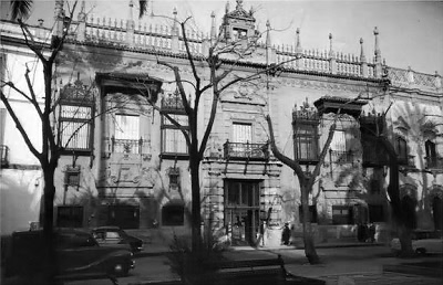 Facade of the Palacio de Sánchez Dalp.